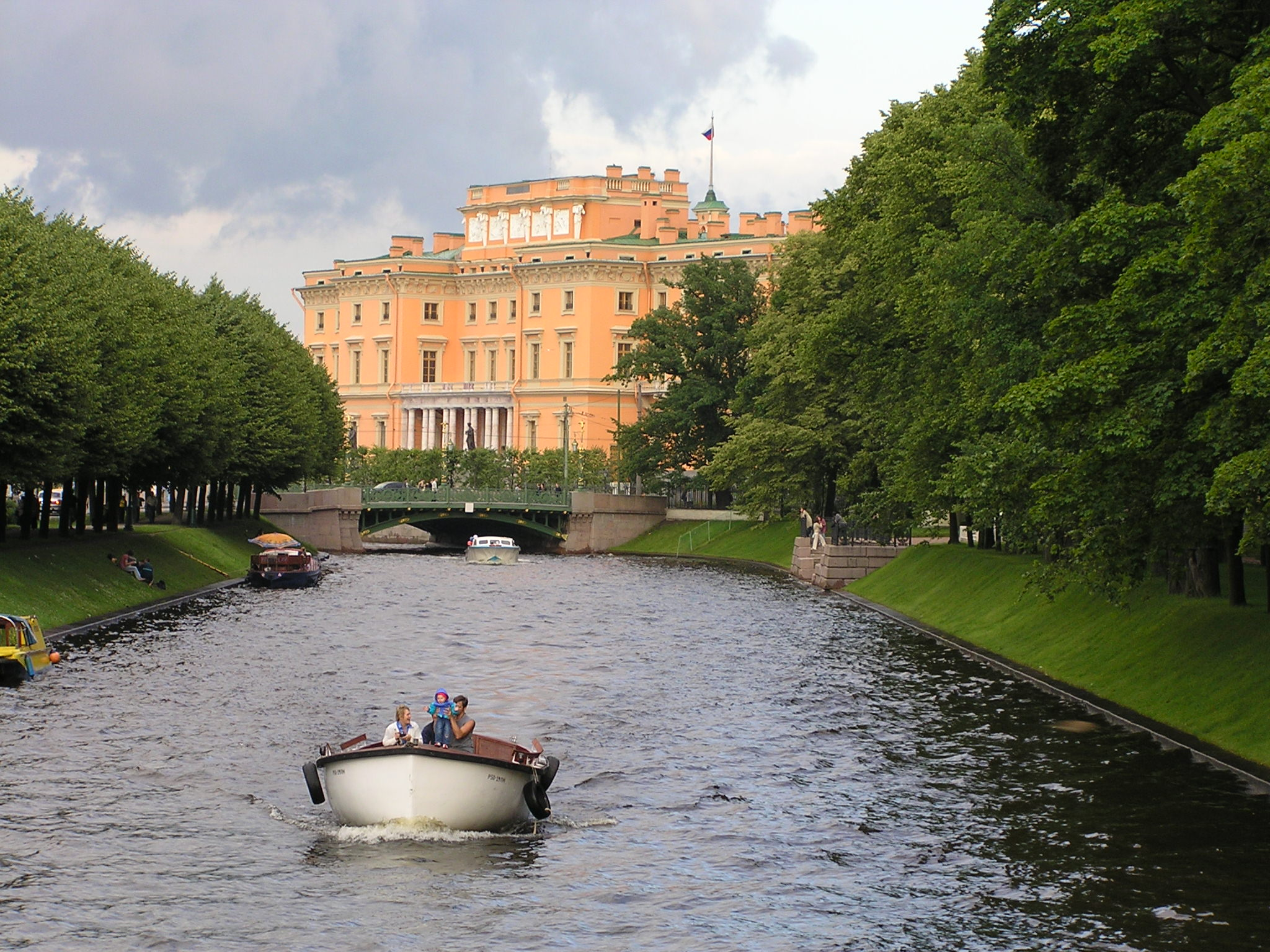 View on St. Michael's Castle, Moika River and First Garden bridge from Second Garden bridge